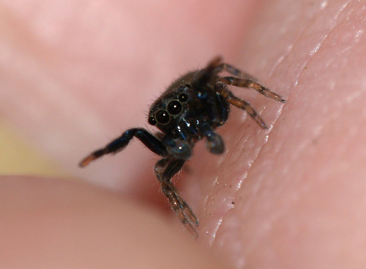 Neon valentulus from Ratingen, Germany. Found inside a moist rotten log.